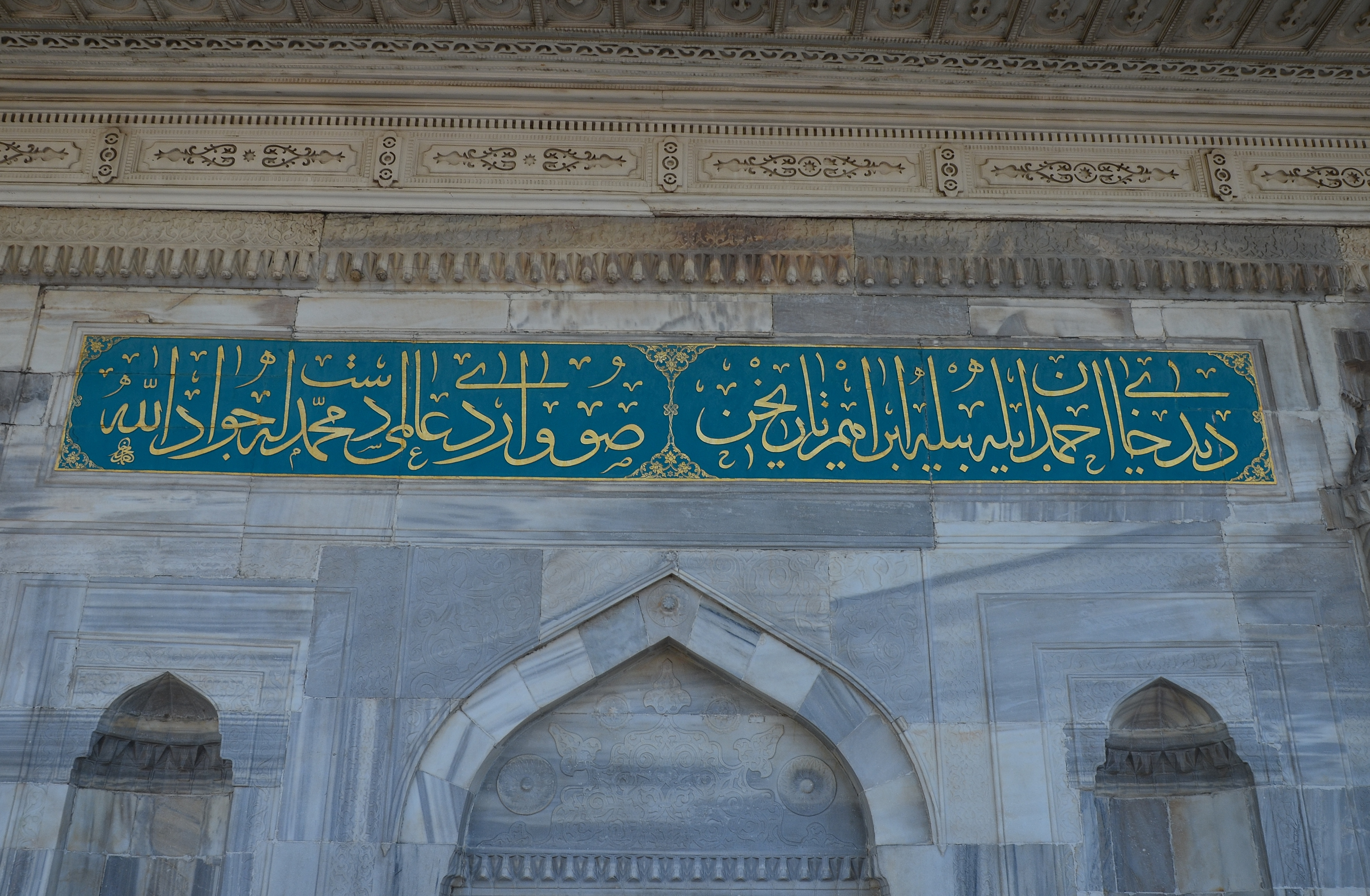 Inscript by Sultan Ahmed III and Grand Vizier Nevşehirli Damat Ibrahim Pasha on the main face of the Fountain of Ahmed III in Üsküdar, Istanbul